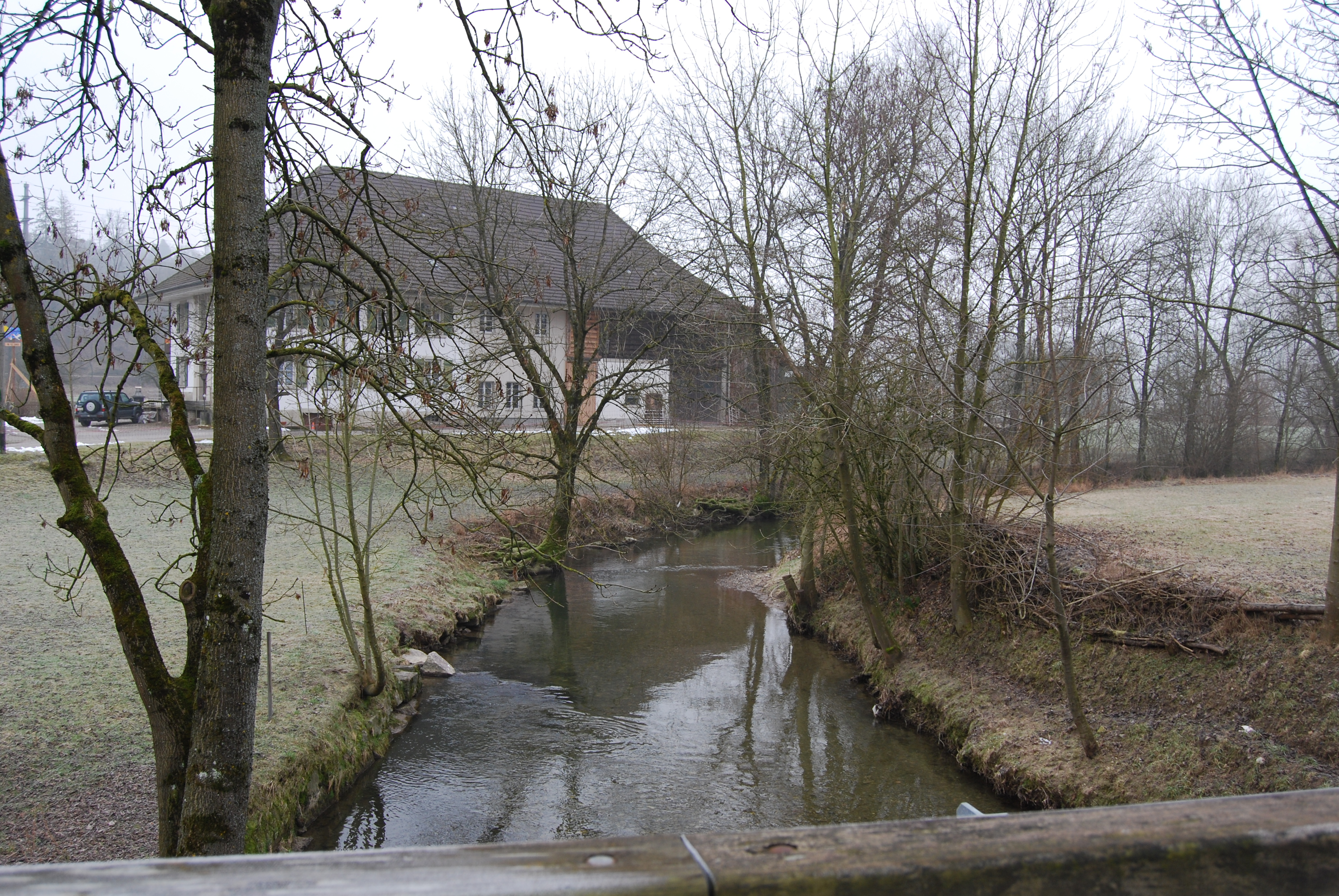 River Wyna at Suhr, canton of Aargau, SwitzerlandEsperanto: Rivero Wyna in Suhr, Kantono Argovio, Svislando